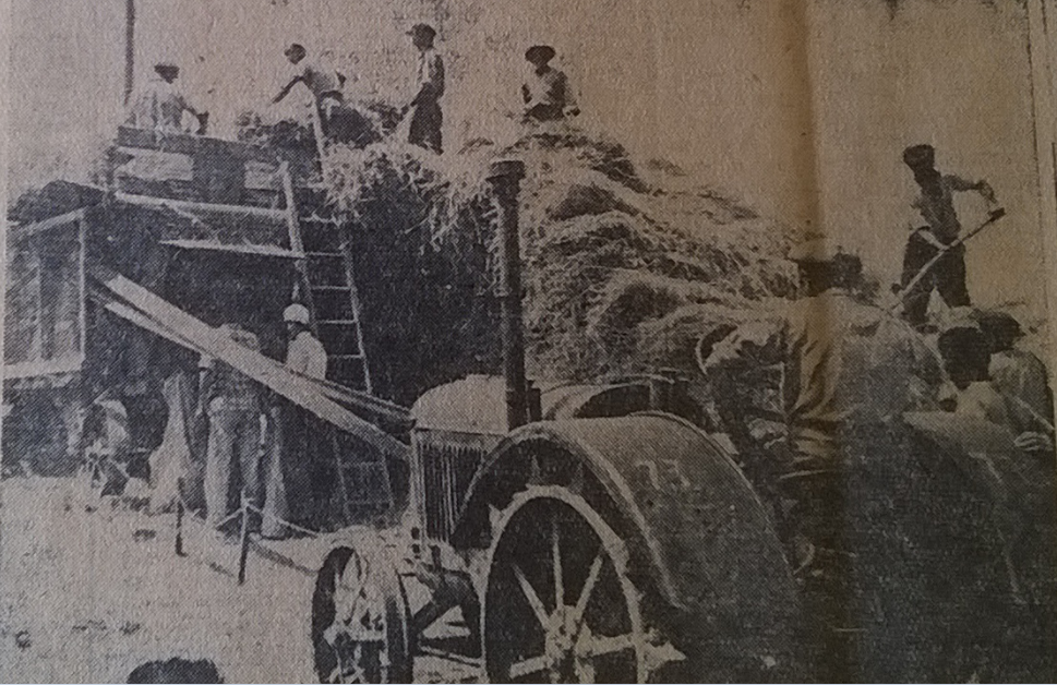 Threshing in Polski Senovets 1957